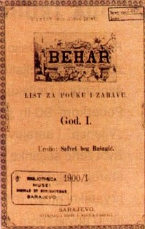 First issue of "Behar", 1900.